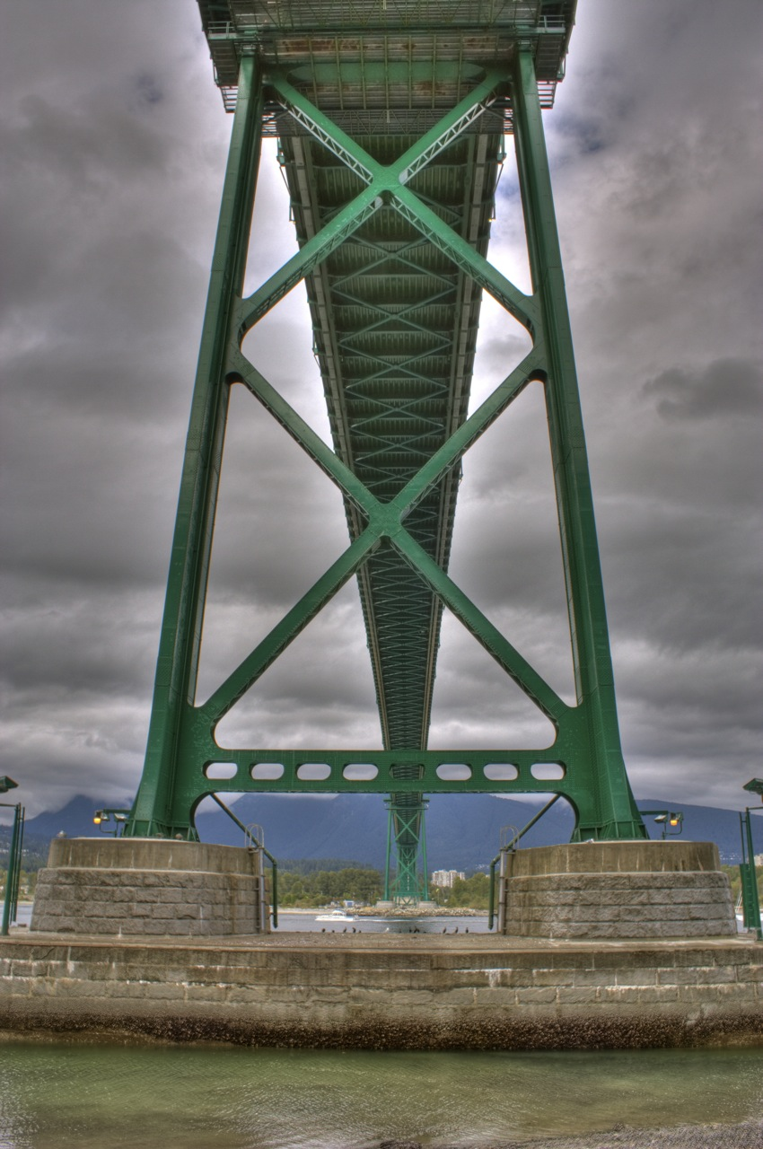 Lions Gate bridge photographed from Stanley park